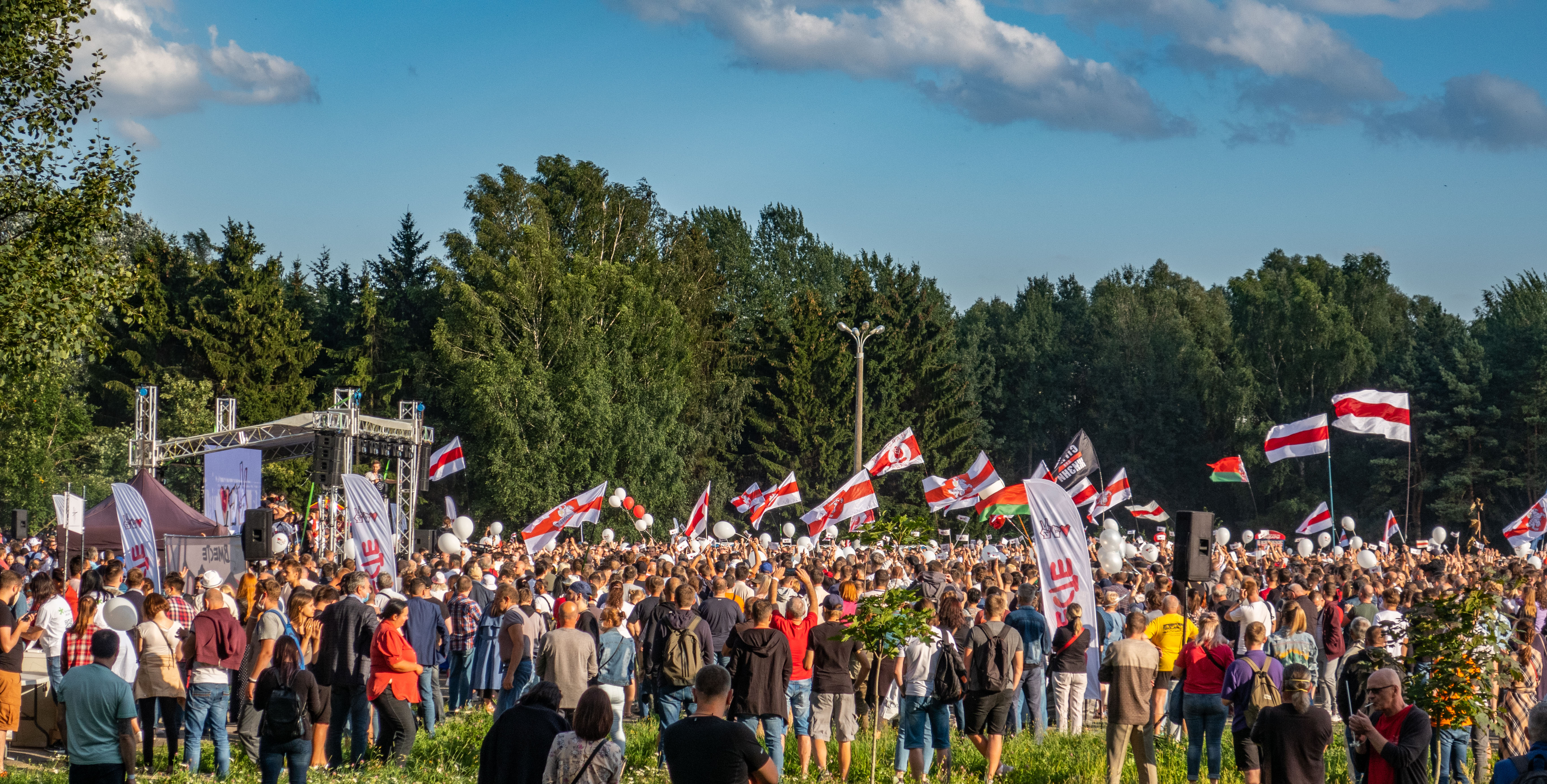 Rally in support of Sviatlana Tsikhanoŭskaya and the joint campaign headquarters. 30 July 2020, Minsk, Belarus